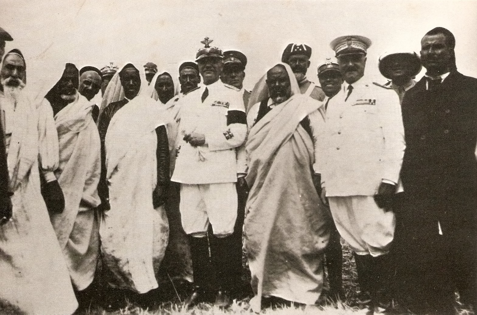 Sidi Rhmua meeting, attended by Omar Mukhtar (second from left), head of the Senussi resistance, Pietro Badoglio (fourth from right), governor of Tripolitania and Cyrenaica, and Siciliani (second from right) vice governor of Cyrenaica.